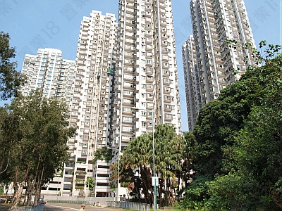 The outlook of Golden Lion Garden The outlook of Golden Lion Garden